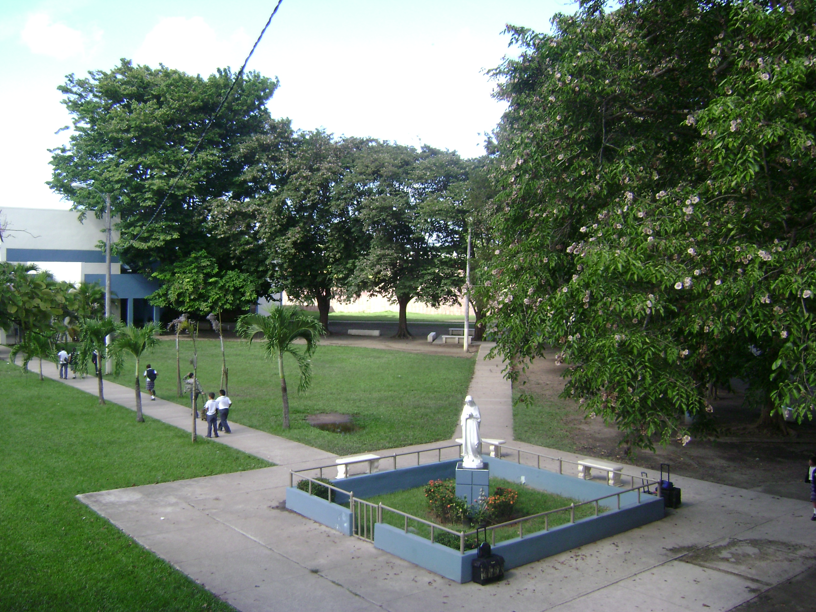 Col. María Auxiliadora (campus)